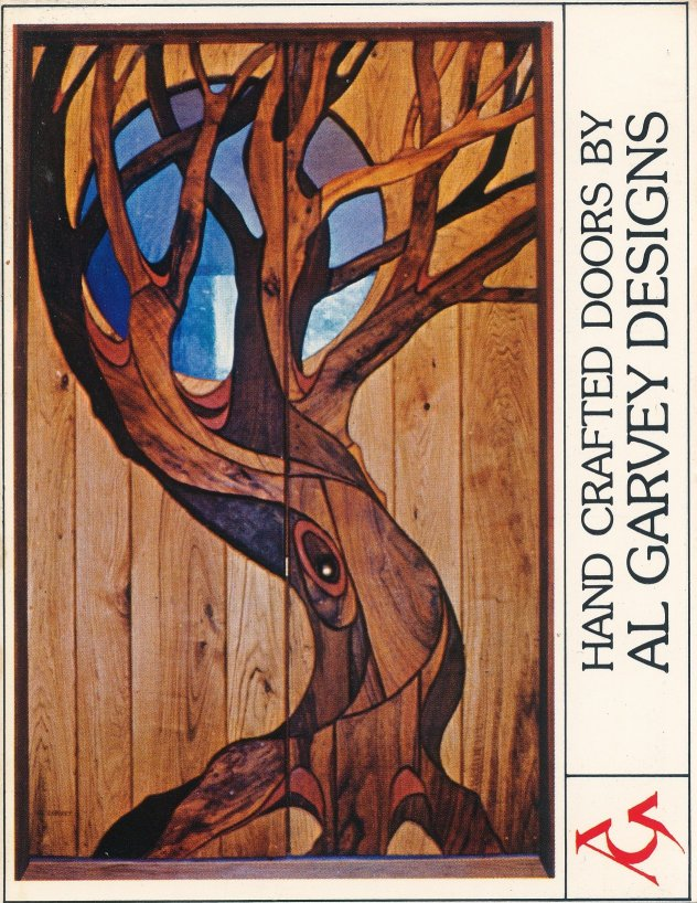 Al Garvey's first business flyer.